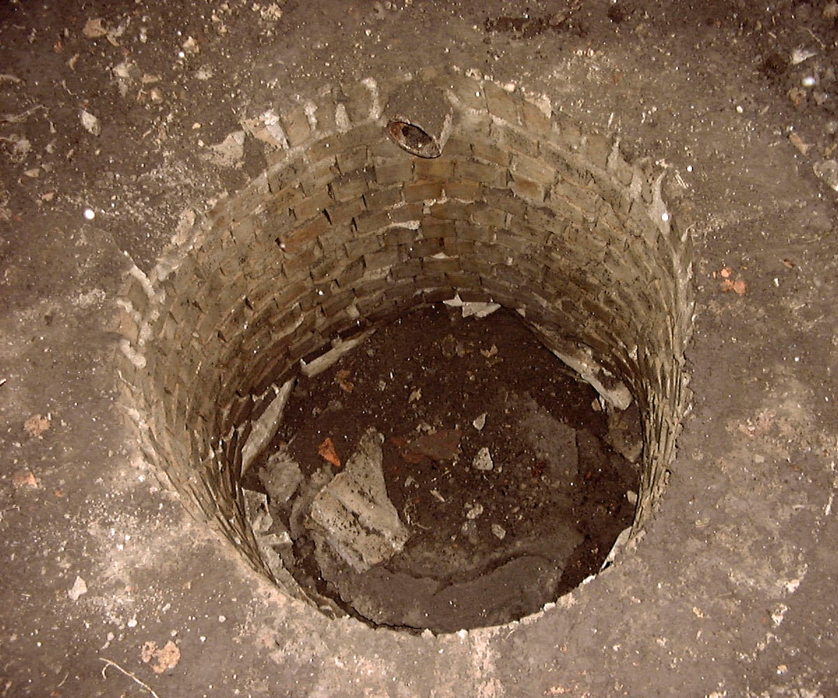 Old dry well. Used until c. 1960. Covered for some 45 years. Bits of earth fell into the hole when the cover was removed.